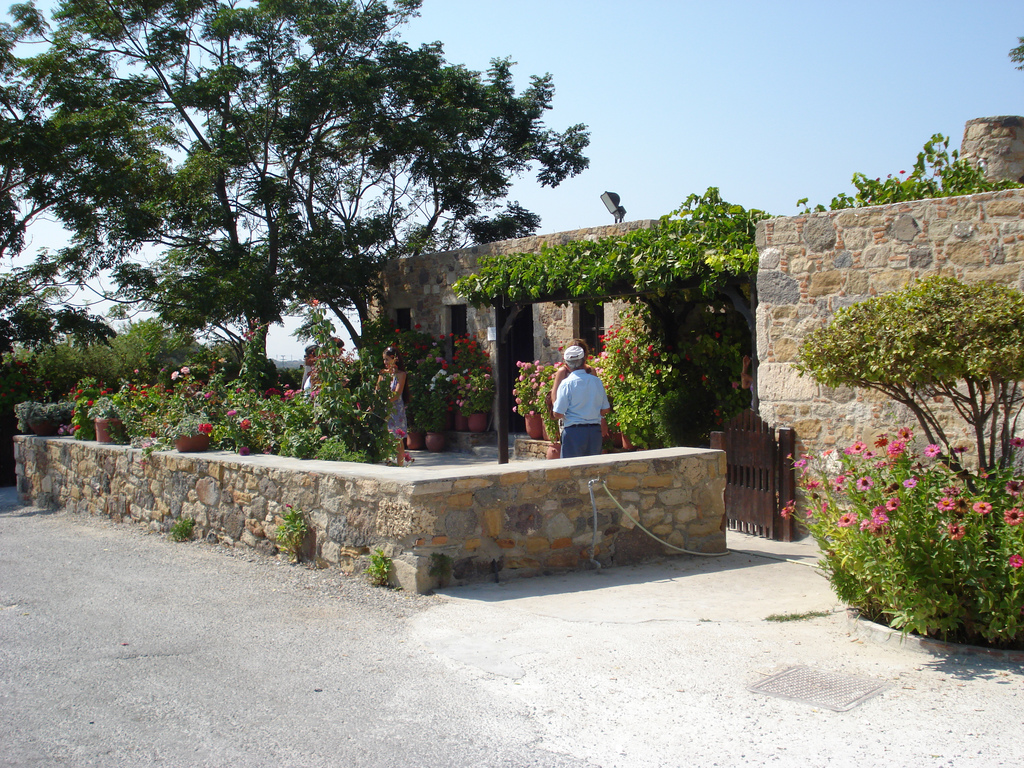 The Traditional House museum in Antimachia on the Greek island of Kos.